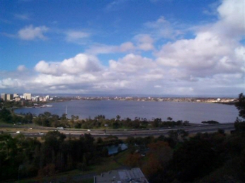 View of the Swan River from Kings Park in Perth. Category:Images of Perth